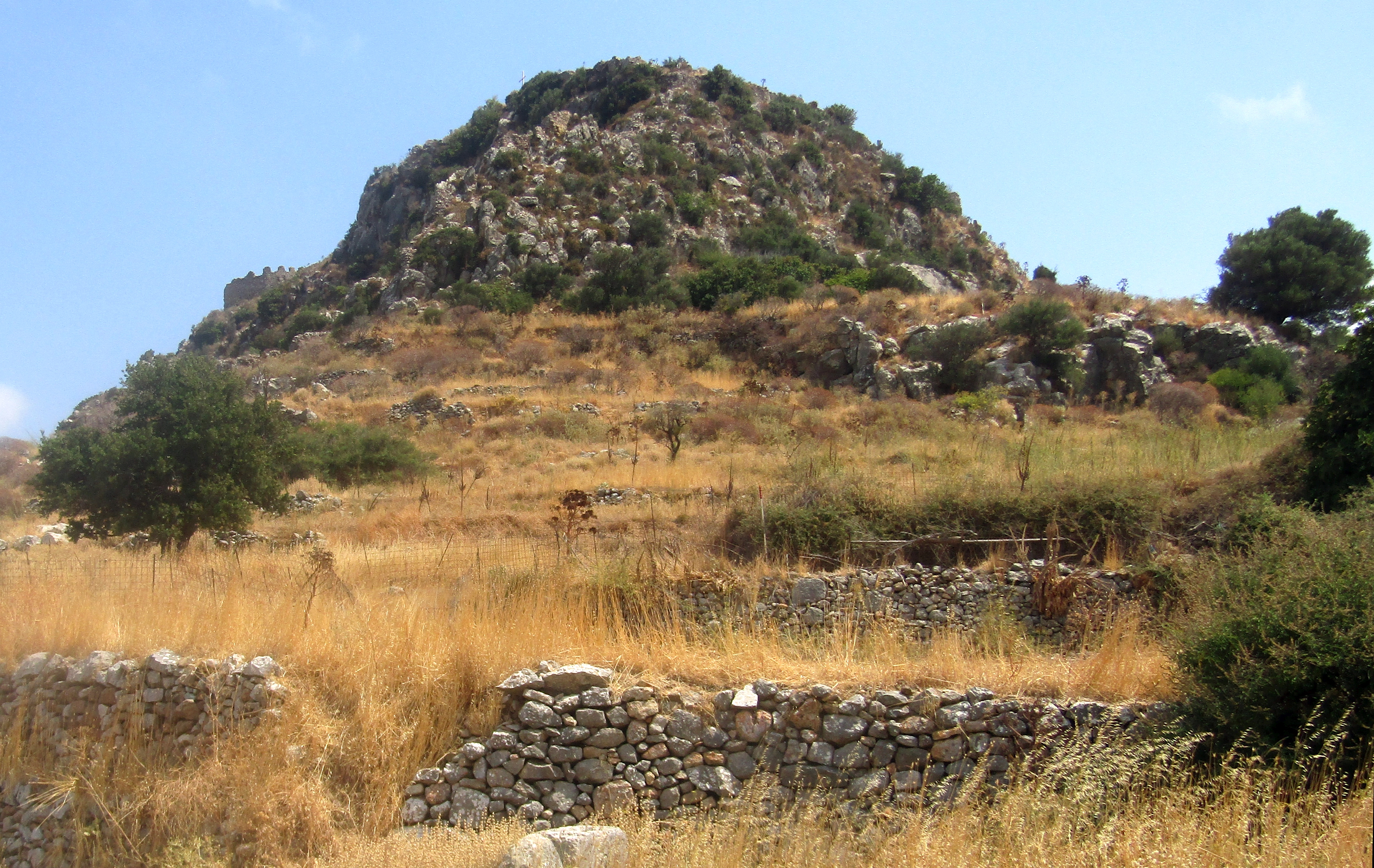 Ancient Polyrrinia acropolis«Πολυρρήνια Χανίων»